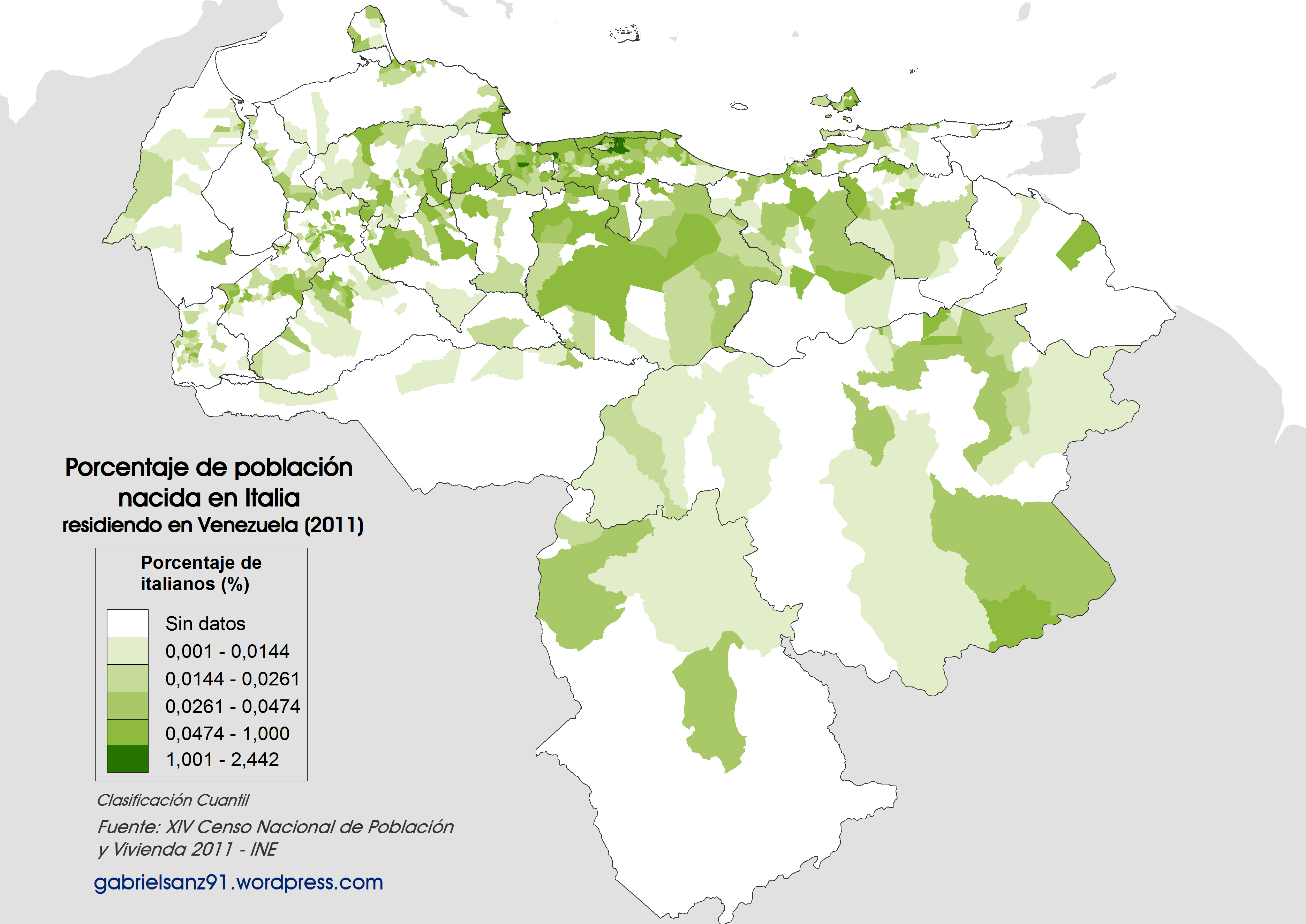 Map of Venezuela, showing percentage of population born in Italy, by parroquias (parishes) according the 2011 Census.